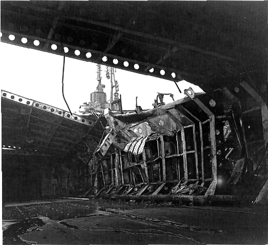 The upper hangar deck of the carrier Katsuragi, photographed 8 October 1945 after it was struck by a 2,000-lb bomb on 28 July.